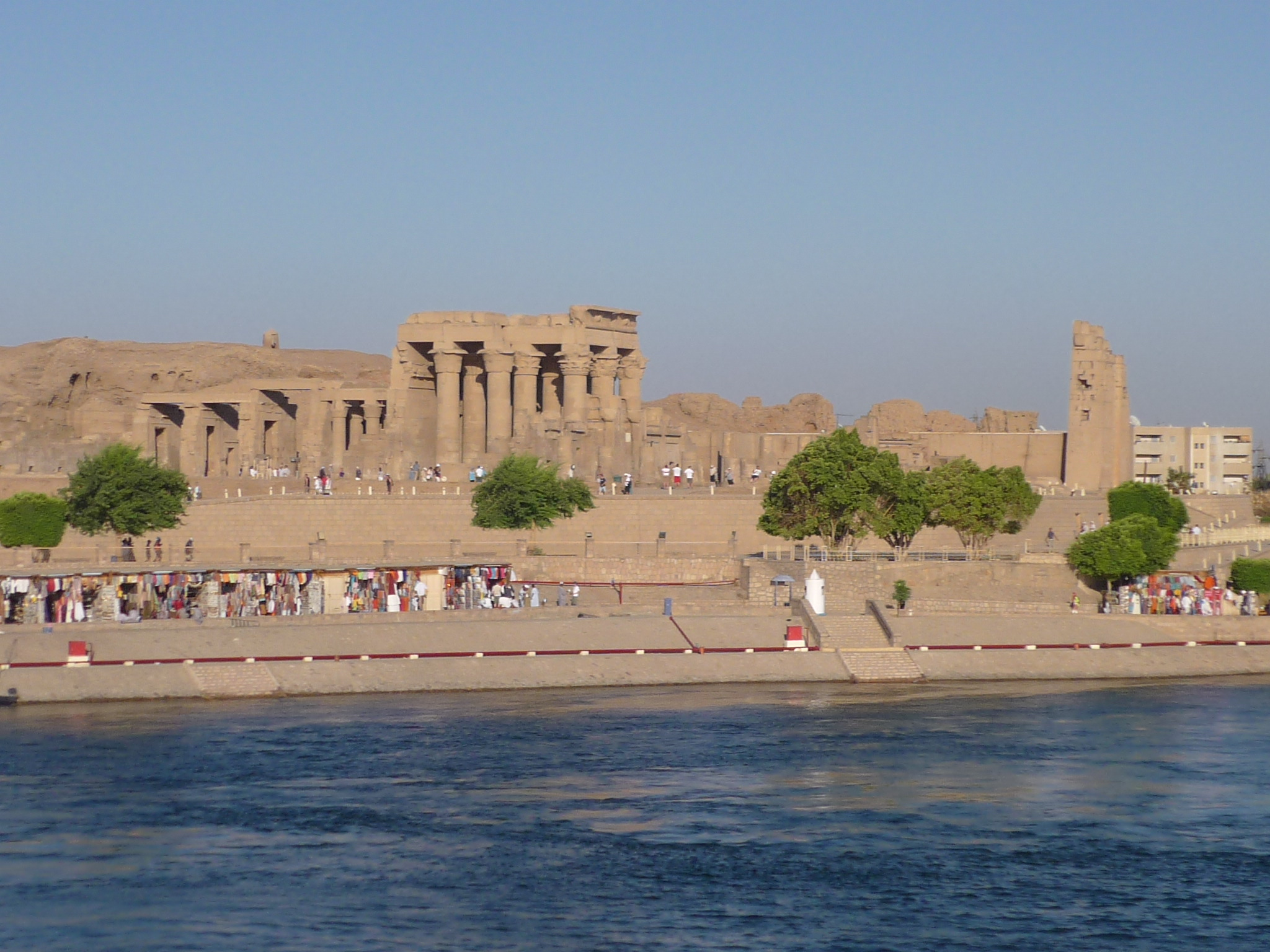 Kom Ombo Temple, Egypt